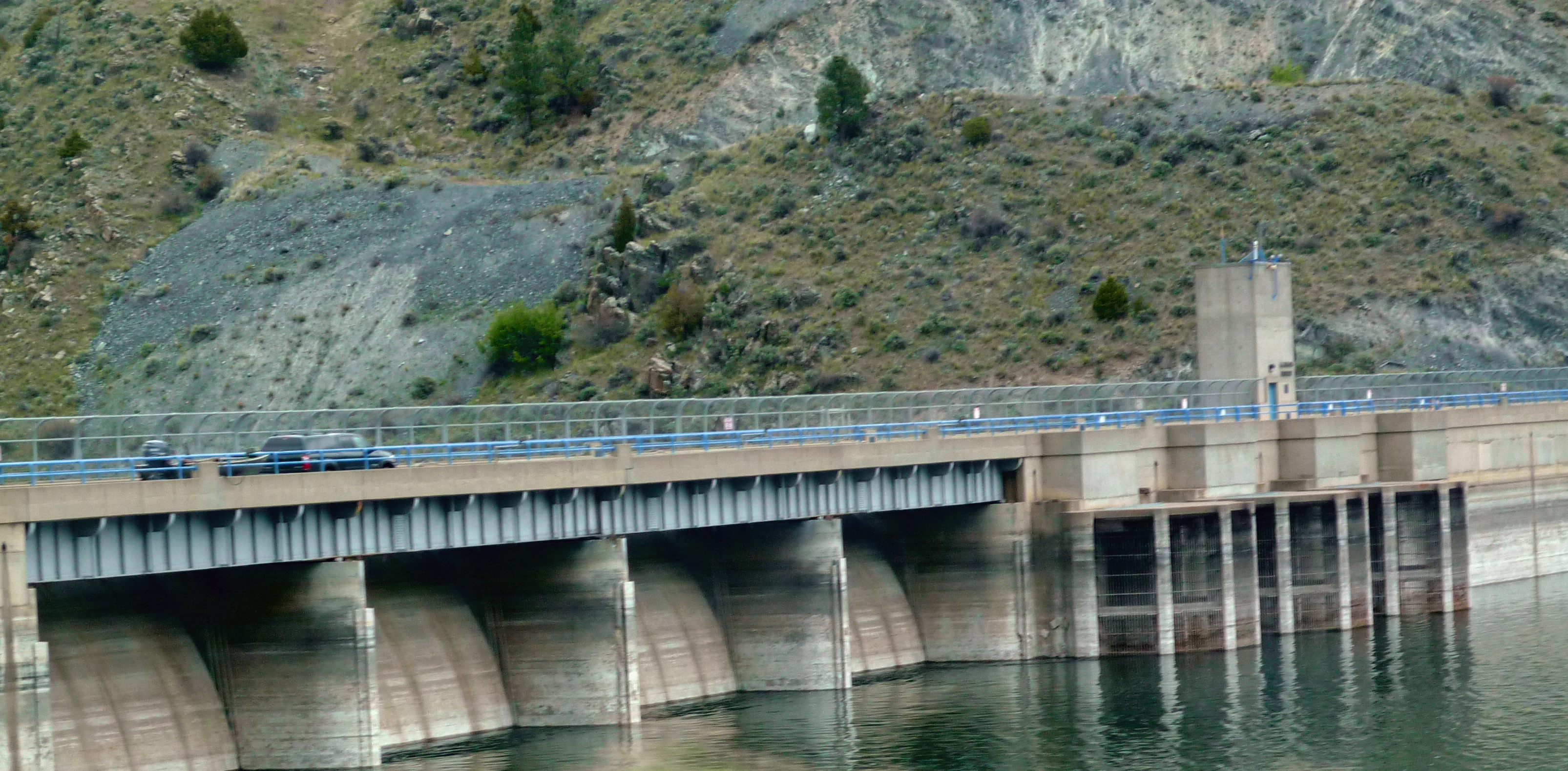 View of Canyon Ferry Dam near Helena, Montana from lake